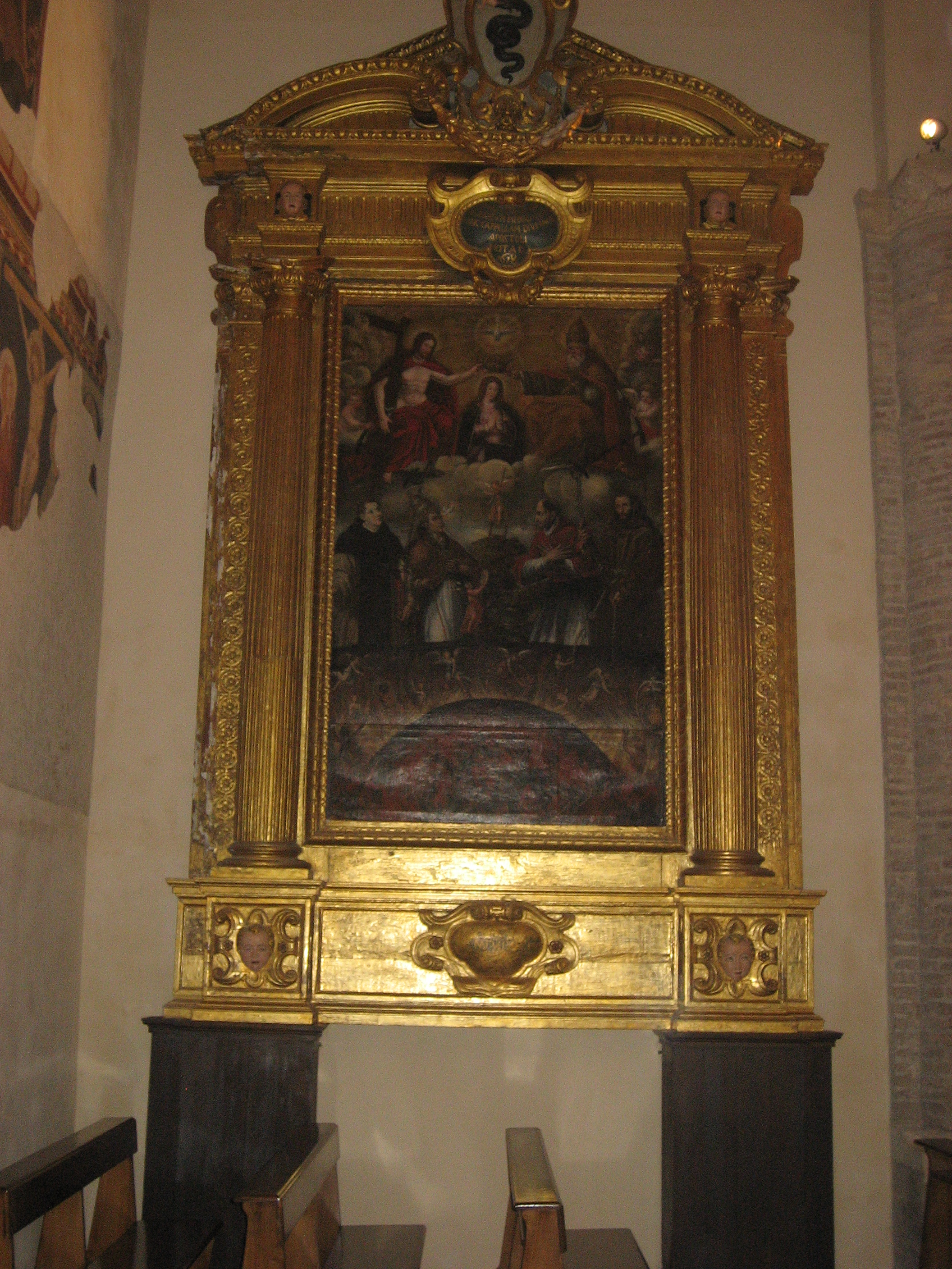 The Chapel Arlini, the private altar in Cathedral of the noble family of the Lombardy moved him to Atri to the '400. And' in primitive Baroque style, with the central cloth of first '600 and of Neapolitan school (Ippolito Borghesi?).